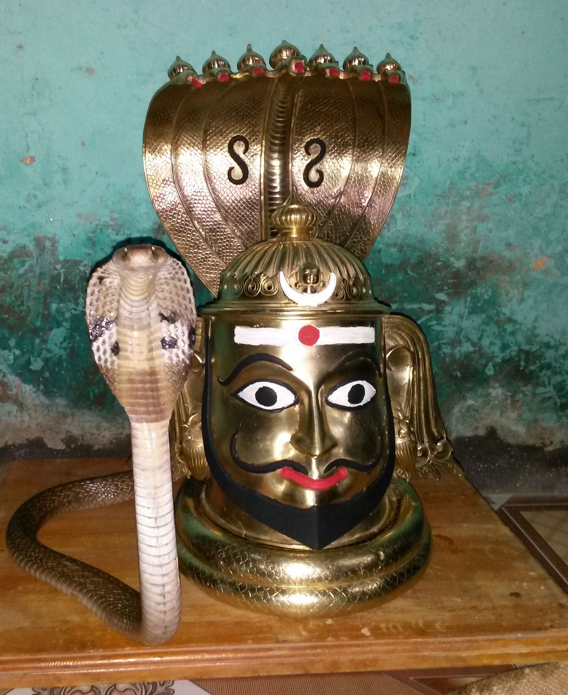 शिरला मधील नाग मंदिरातील नागपंचमी दिवशीचा फोटो .